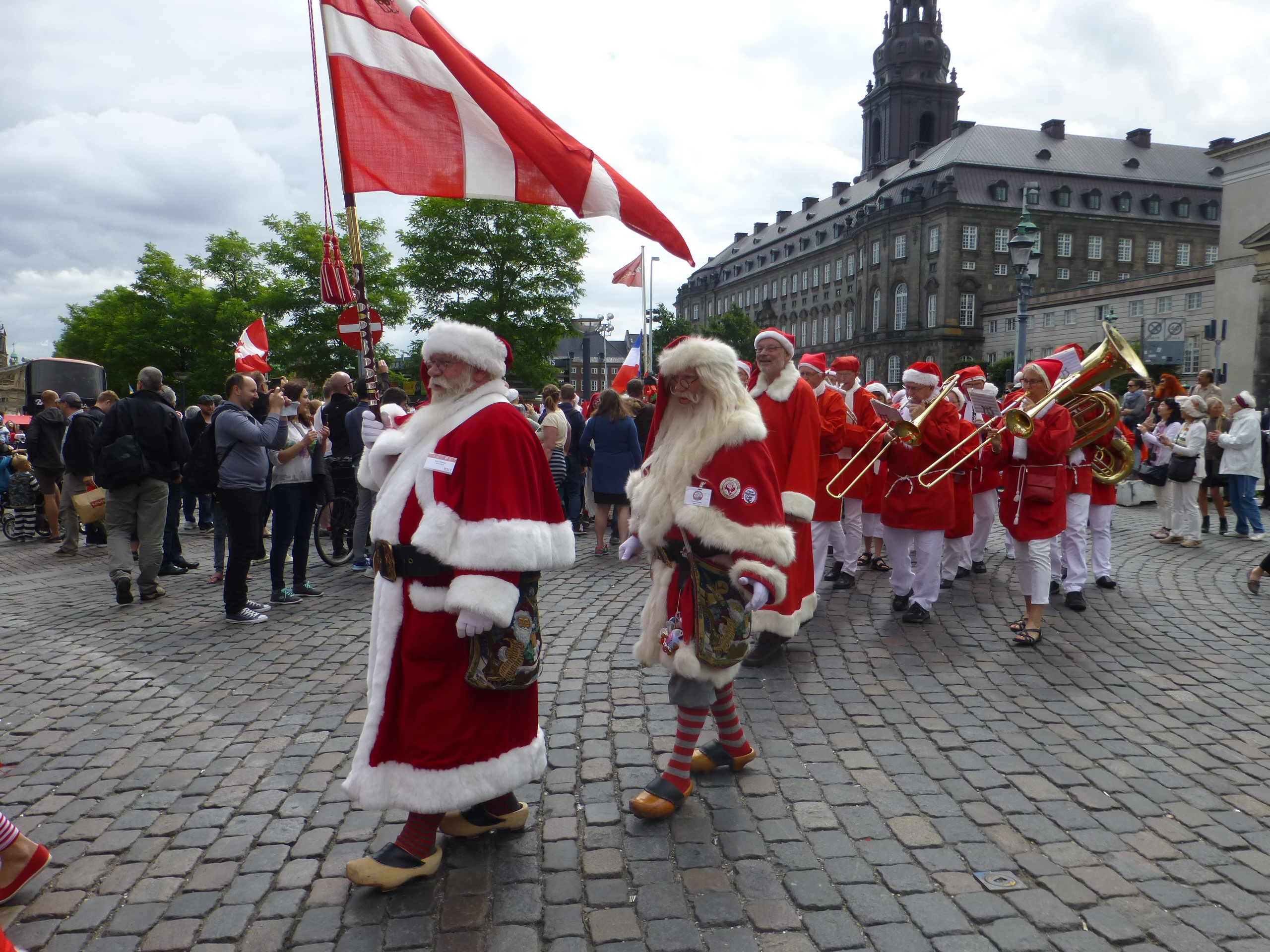 World Santa Claus Congress 2015 in Copenhagen. Start of parade from Højbro Plads.